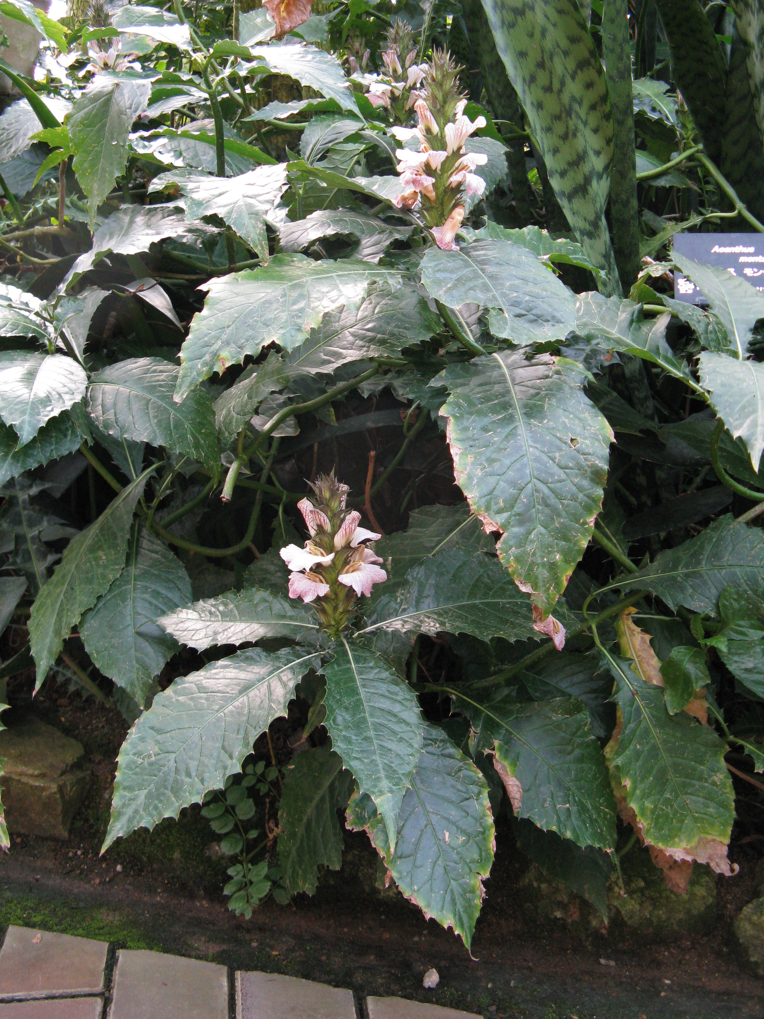 Acanthus montanus